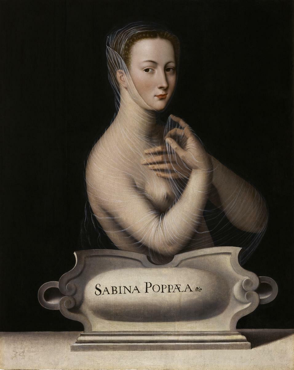 Painting of the Roman courtesan Sabina Poppea who was briefly married to the emperor Nero